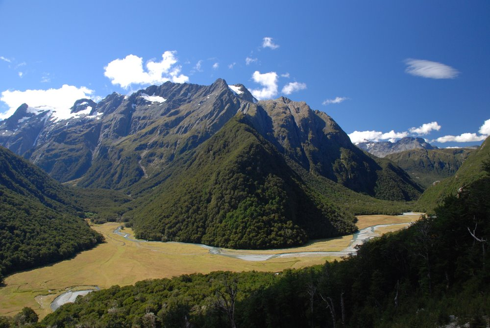 The Humboldt Mountains, part of the Southern Alps of the South Island of New Zealand. Photo taken on the popular hiking trail known as the Routeburn Track. This viewpoint was opened up after a massive slip exposed the rock face, and therefore a clear view of this gorgeous divide. We had had lunch down there on the river flat, just a few hours earlier.